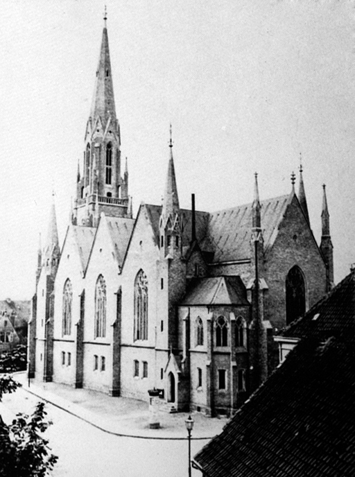 The former St. Remberti church in Bremen, Germany. The gothic revival building from 1871 was destroyed by a air raid in 1942.